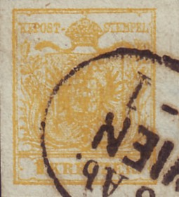 Austria-Nr_1M